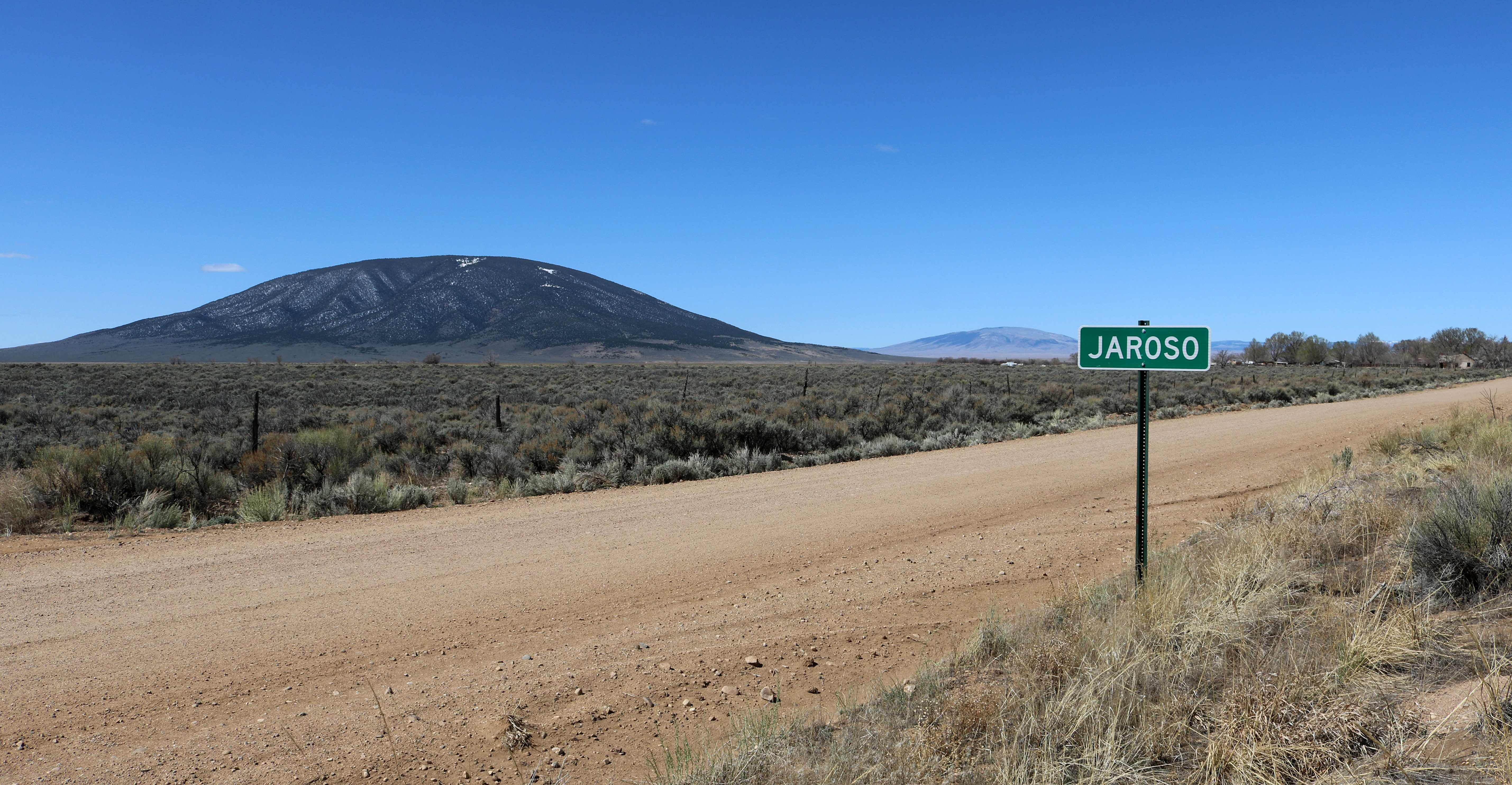 A view of Jaroso, Colorado. The view is from Costilla County Road A.5, just west of County Road 9. The central part of Jaroso lies where the trees are on the right. The mountain on the left is Ute Mountain, across the border in New Mexico.